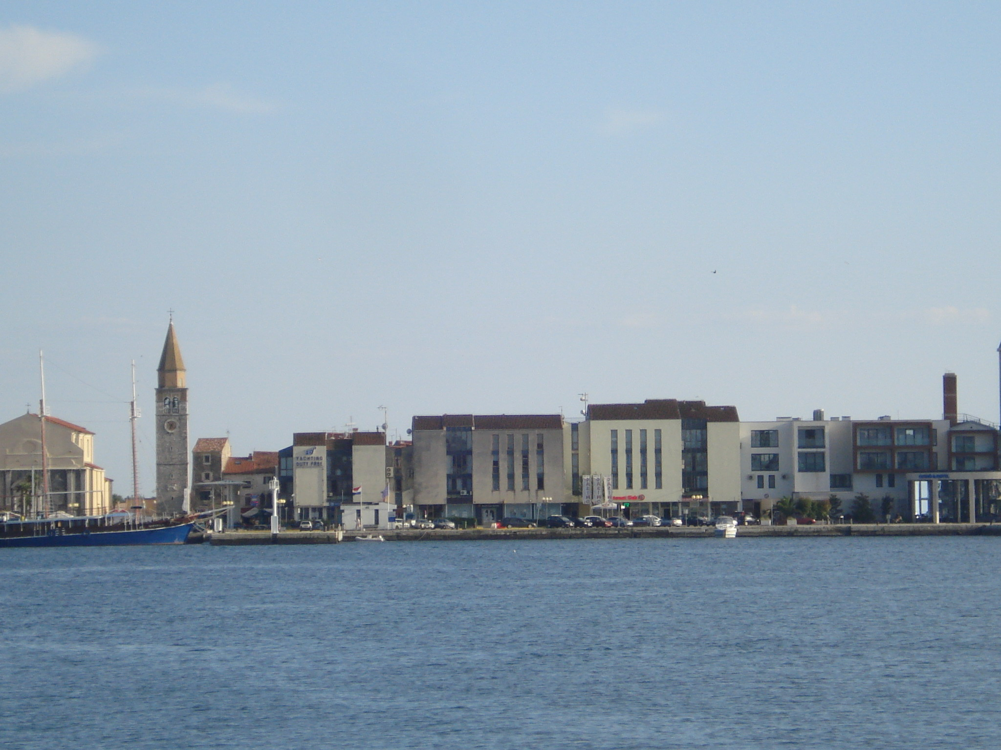 The Town of Umag, Croatia - centre, north side